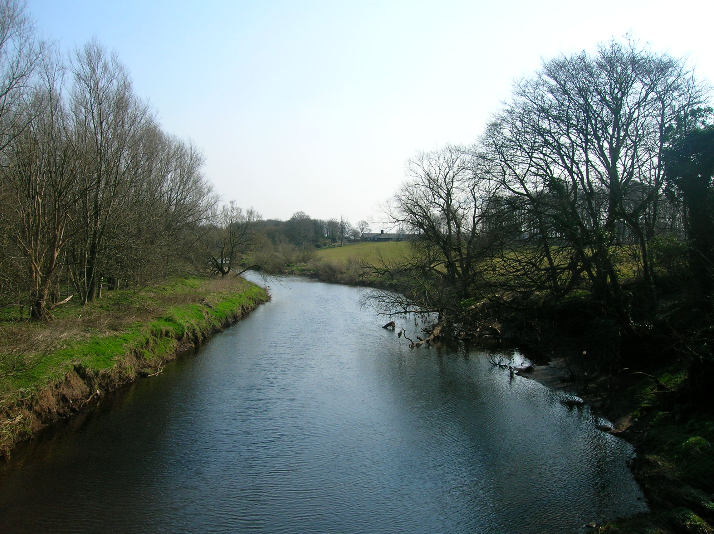 The River Irvine near the old Shewalton house and estate, near Dundonald, North Ayrshire, Scotland, 2007.